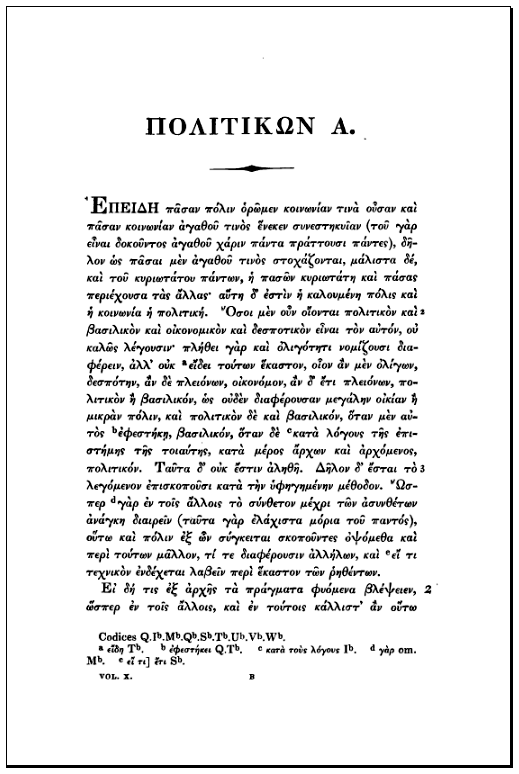 Aristotle: Politics, first page in Immanuel Bekker's edition, 1837.